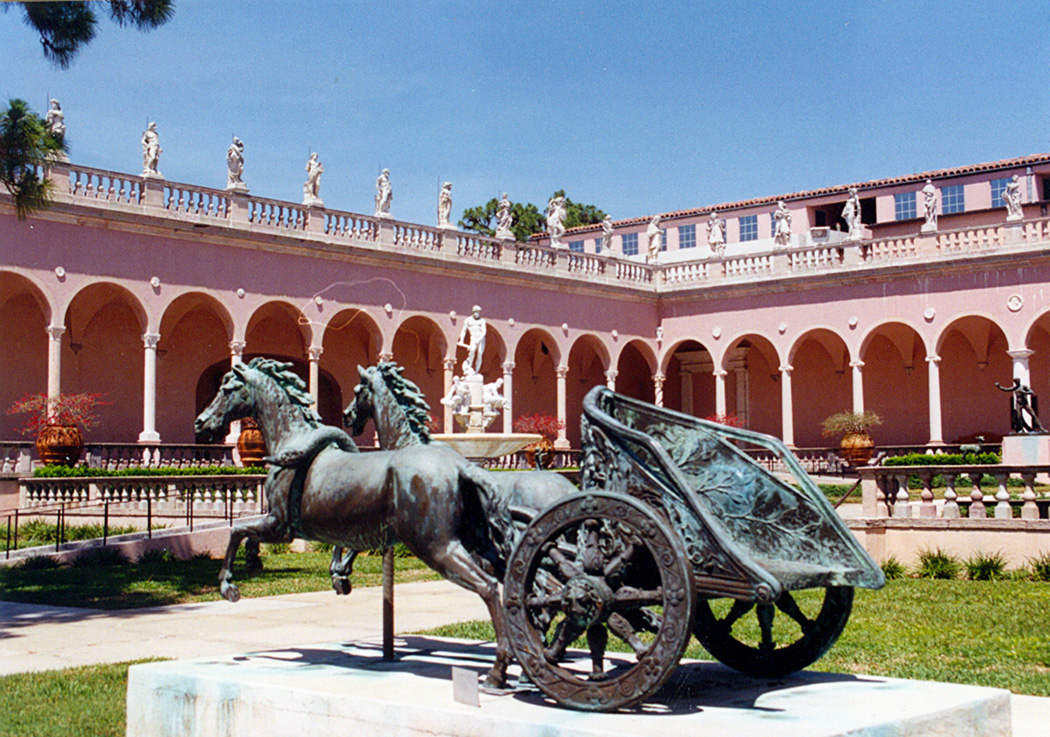 This bronze reproduction of a sculpture of a Roman chariot is a feature of the courtyard, inside the main buildings of the John and Mable Ringling Museum in Sarasota, Florida.